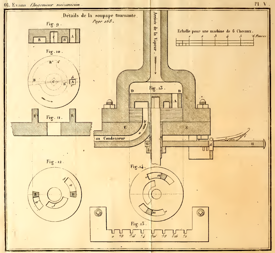 A diagram of a rotary steam valve from the French edition of the Abortion of the Young Steam Engineer's Guide, 1820